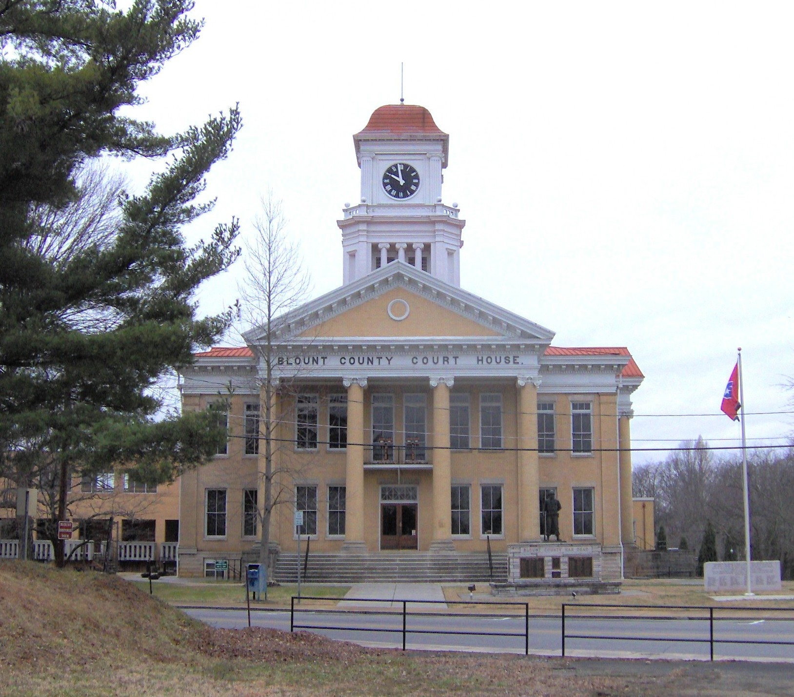 Blount County Courthouse in Maryville, Tennessee, in the southeastern United States. The courthouse, the fifth for the county, was built in 1906, and designed by the Baumann Brothers, Joseph and Albert, Sr.